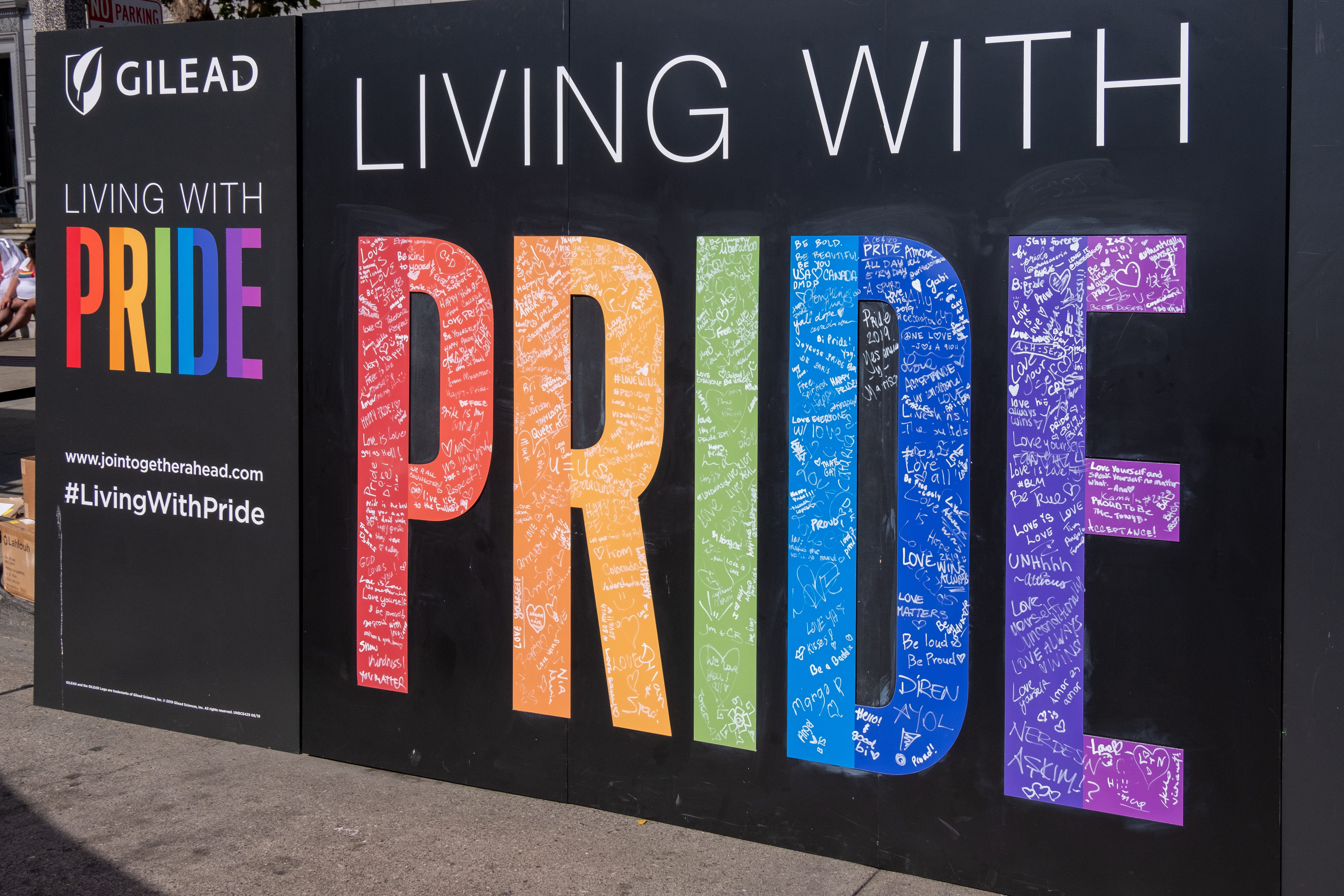 Festival at San Francisco Pride 2019 on 30 June 2019